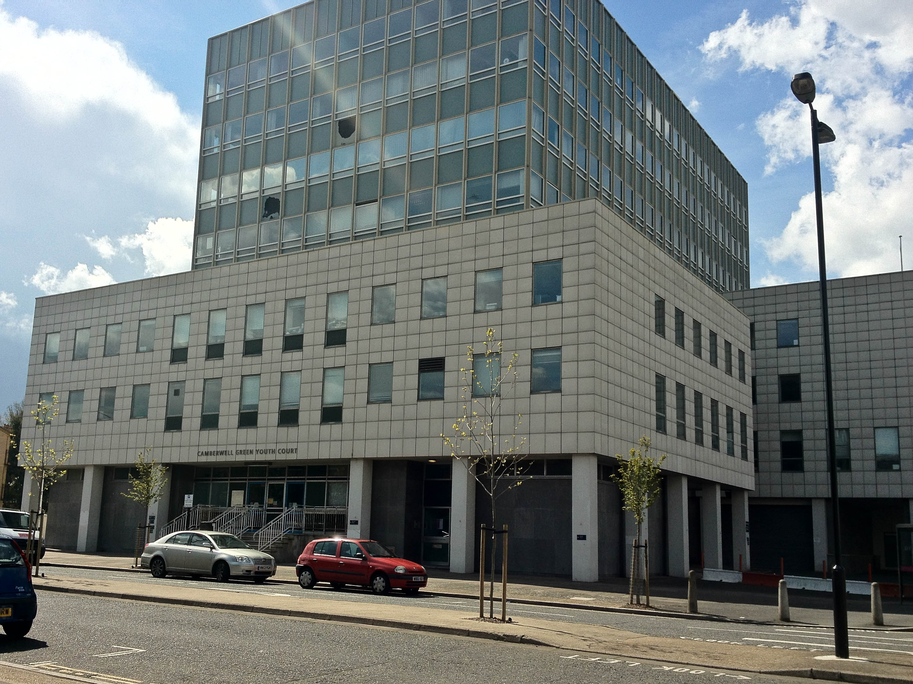 Youth court in Camberwell, South East London. London SE5.